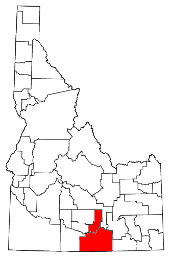 Locator map of the Burley Micropolitan Statistical Area in the southern part of the U.S. state of Idaho.